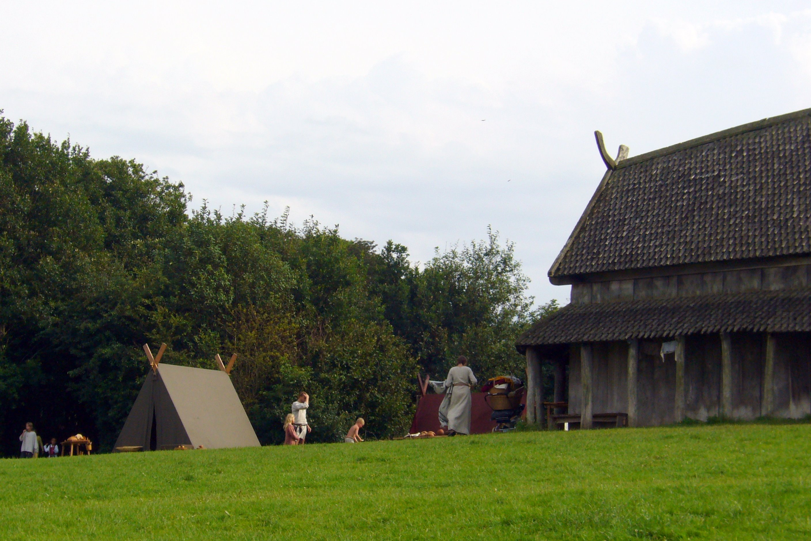 Trelleborg 14-07-2007 16.44.29, Location: Slagelse